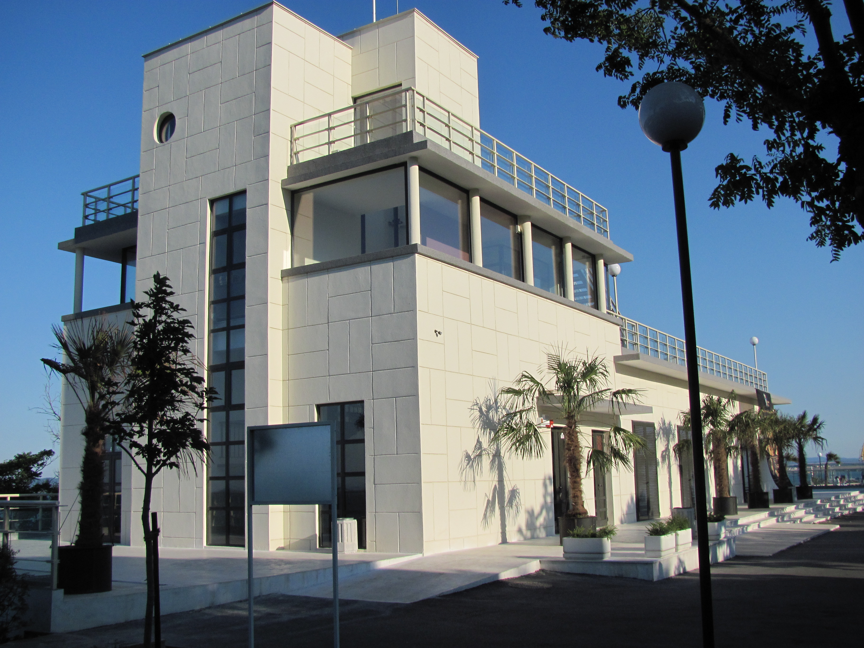 kazino8